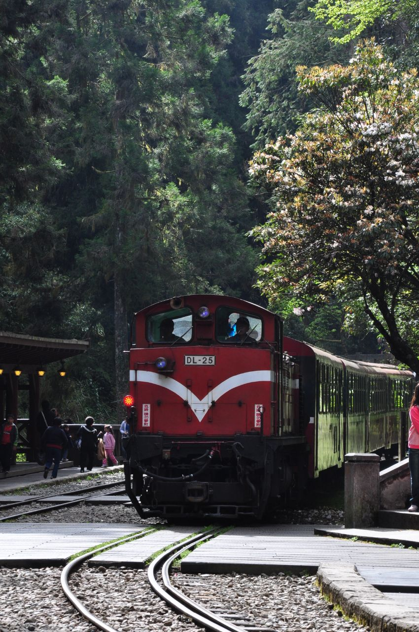 Alishan Forest Railway Diesel locomotive DL-25 @ Sacred Tree Station